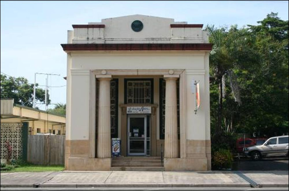 National Bank of Australasia Building (former) (2009), Mossman